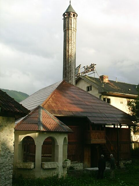 Town of Gusinje on the eastern edge of Montenegro